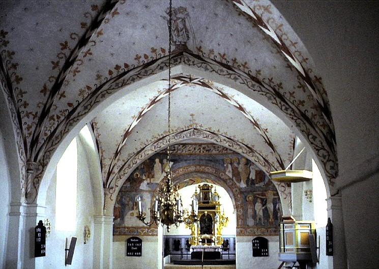 Jørlunde Kirke (church)